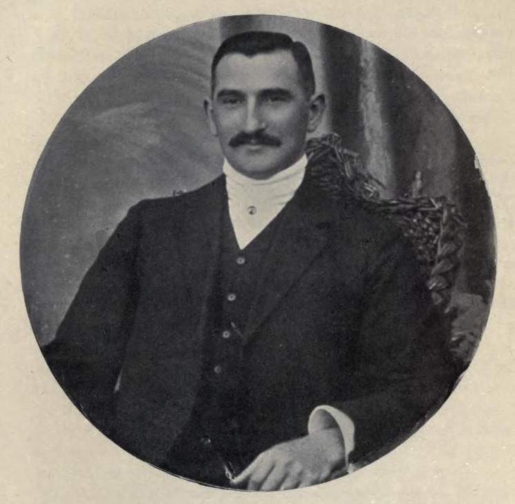 p.37 introduction.